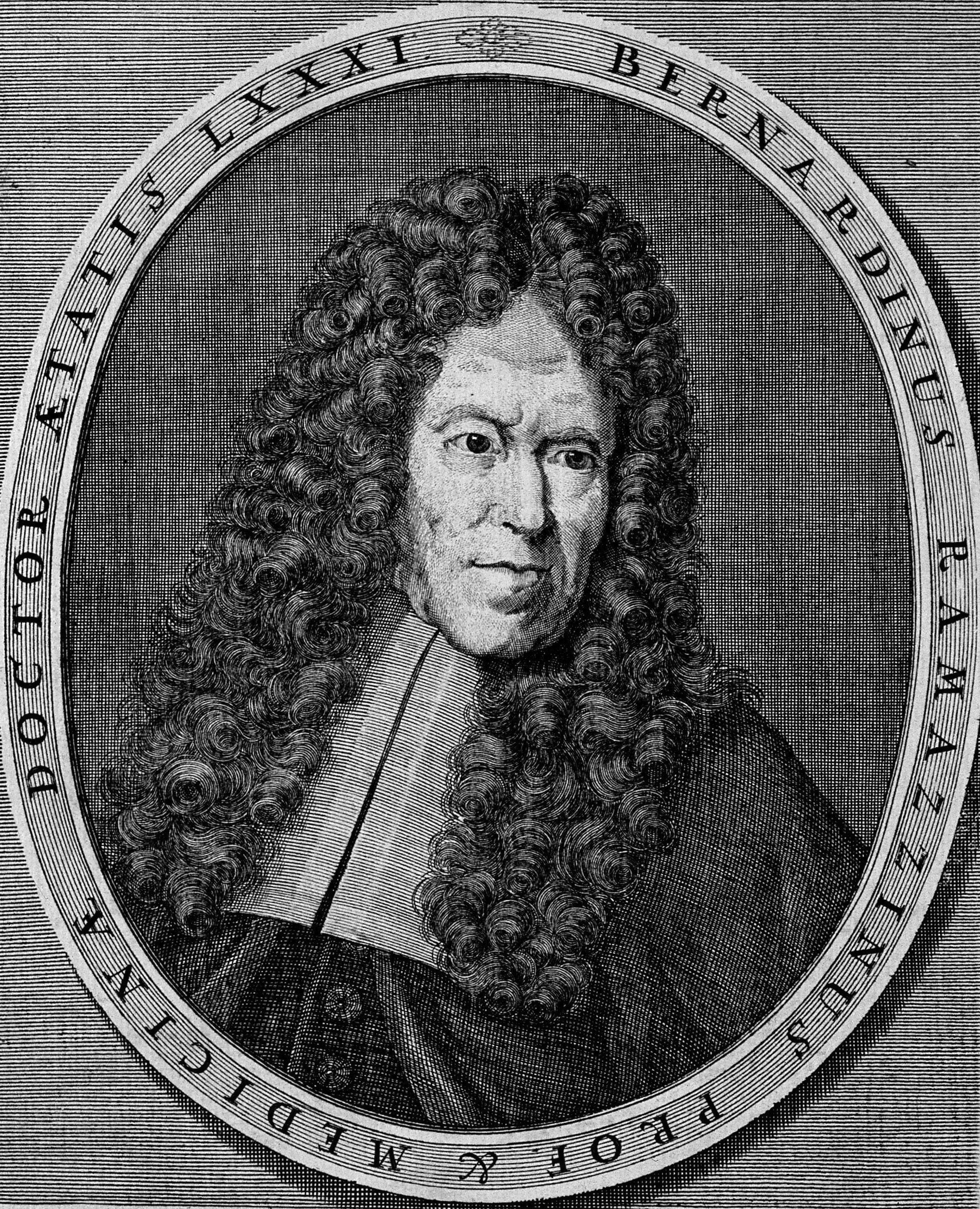 Bernardino Ramazzini, Italian MD, founder of occupational medicine